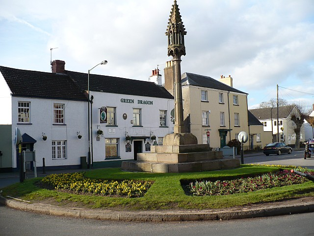 Roundabout and Green Dragon Inn, Overmonnow Situated on the Rockfield Road adjacent to Monnow Bridge.